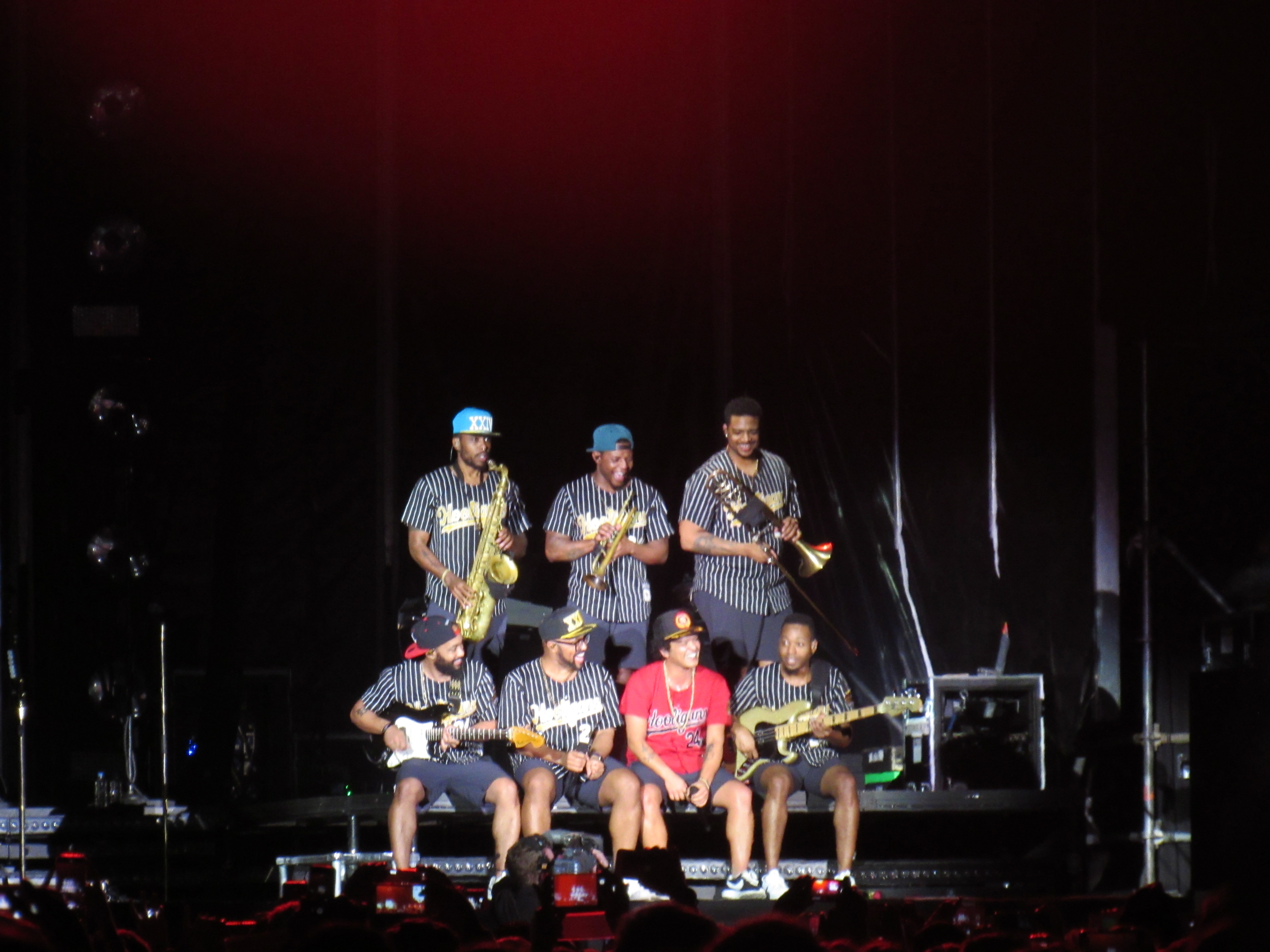 The Hooligans en el marco del XXIVk Magic World Tour en la ciudad de Bogotá